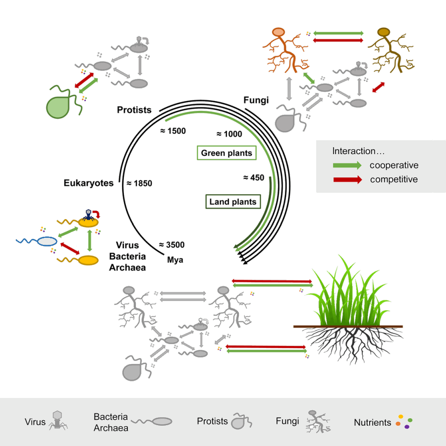 Evolutionary history of microbe-microbe and plant-microbe interactions. Microbial interactions are outlined at the evolutionary scale, showing that plant-microbe interactions occurred relatively recently compared to the more ancestral interactions among bacteria or between different microbial kingdoms. Both competitive (red) and cooperative (green) interactions within and between microbial kingdoms are depicted. Mya, million years ago. Evolutionary divergence estimated from: Lücking R, Huhndorf S, Pfister DH, Plata ER, Lumbsch HT. Fungi evolved right on track. Mycologia. 2009;101:810–22. Heckman DS, Geiser DM, Eidell BR, Stauffer RL, Kardos NL, Hedges SB. Molecular evidence for the early colonization of land by fungi and plants. Science. 2001;293:1129–33.